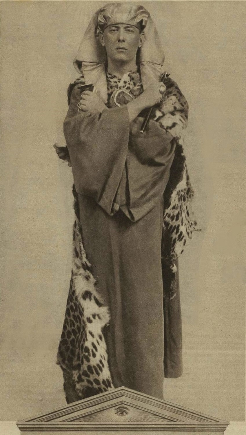 Aleister Crowley as Osiris. Détective #27, 1929.